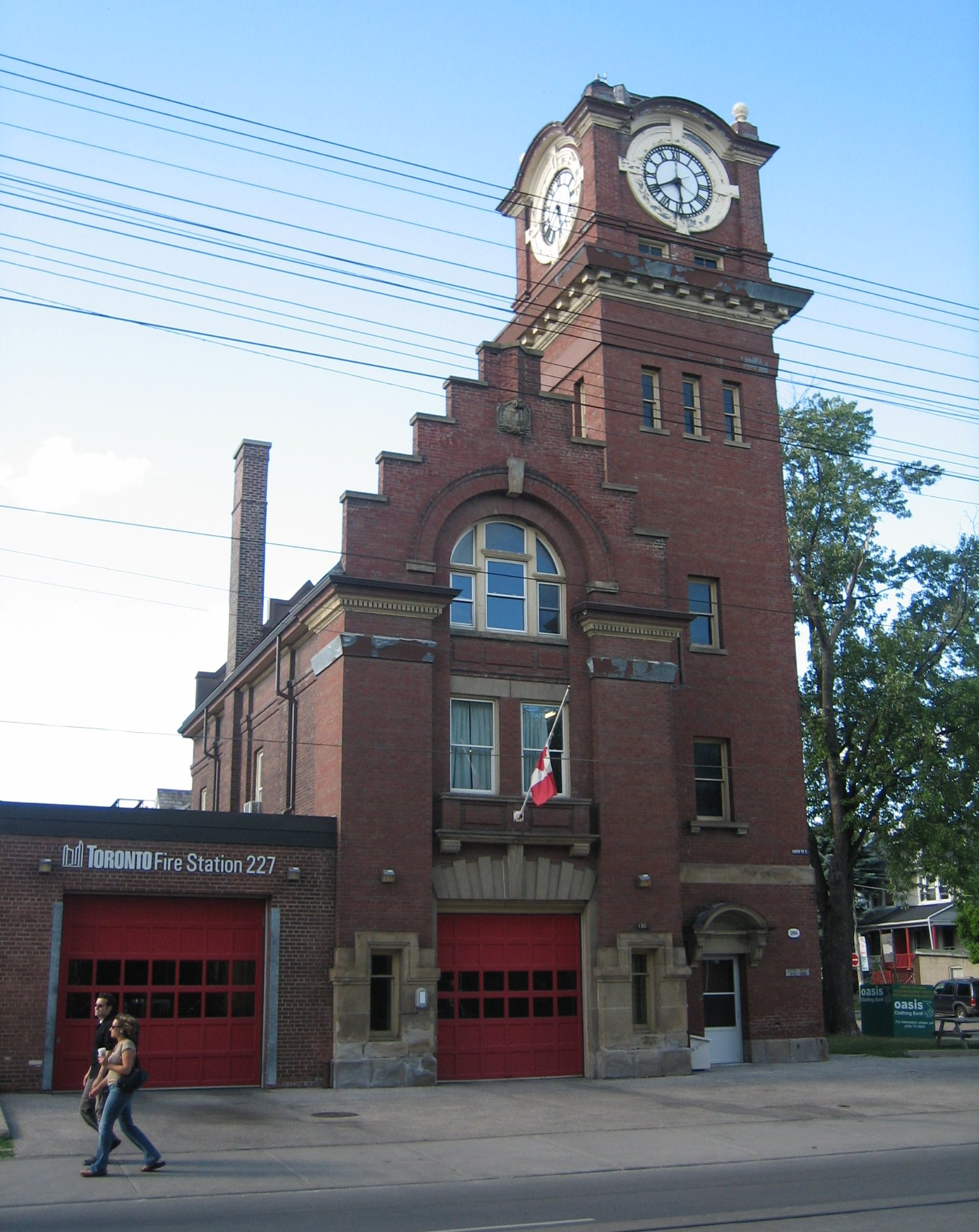 Kew Beach Fire Station/Toronto Fire Services Station 227 - ex Toronto Fire Department Station 17